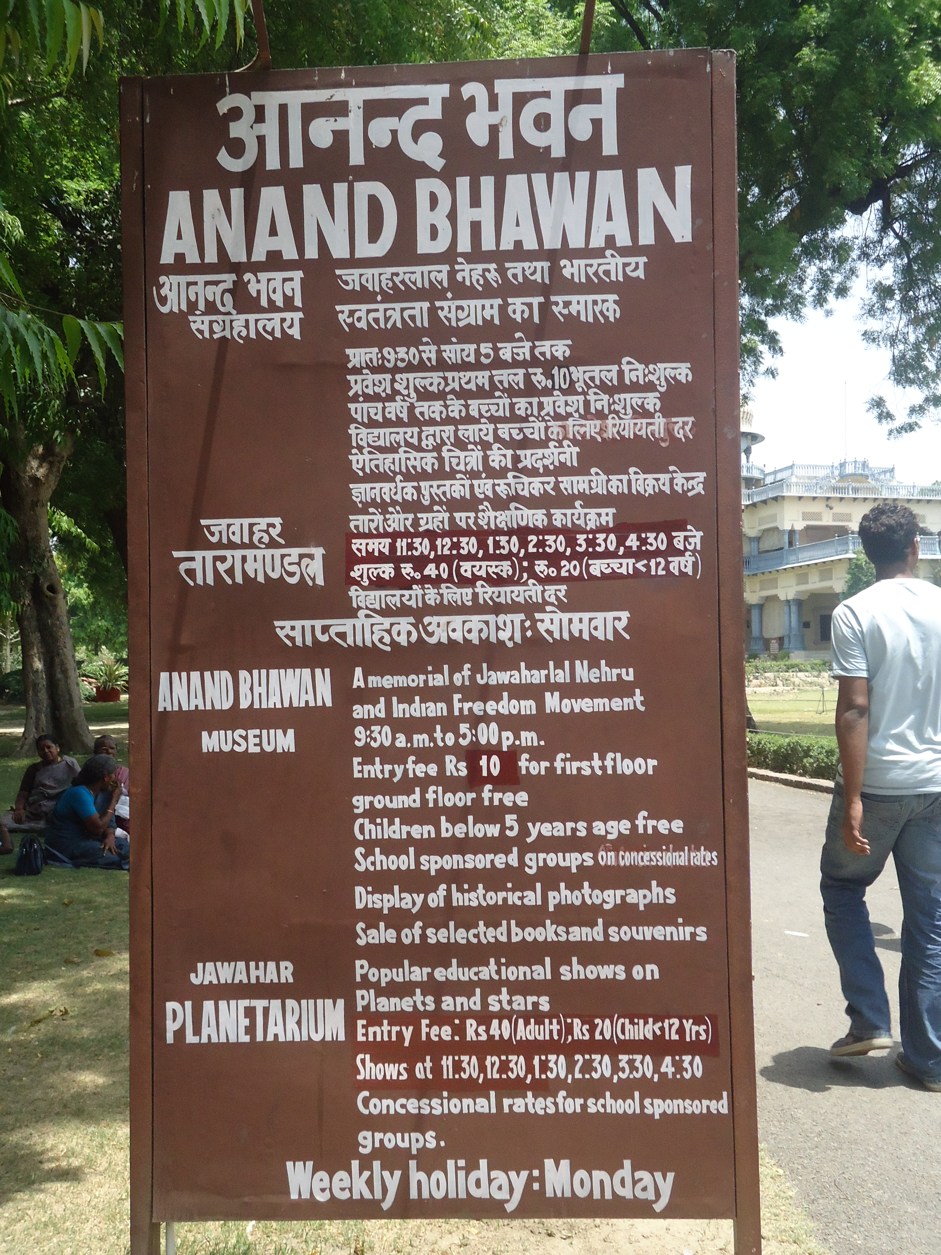 A BOARD ON THE ENTERANCE OF ANAND BHAWAN